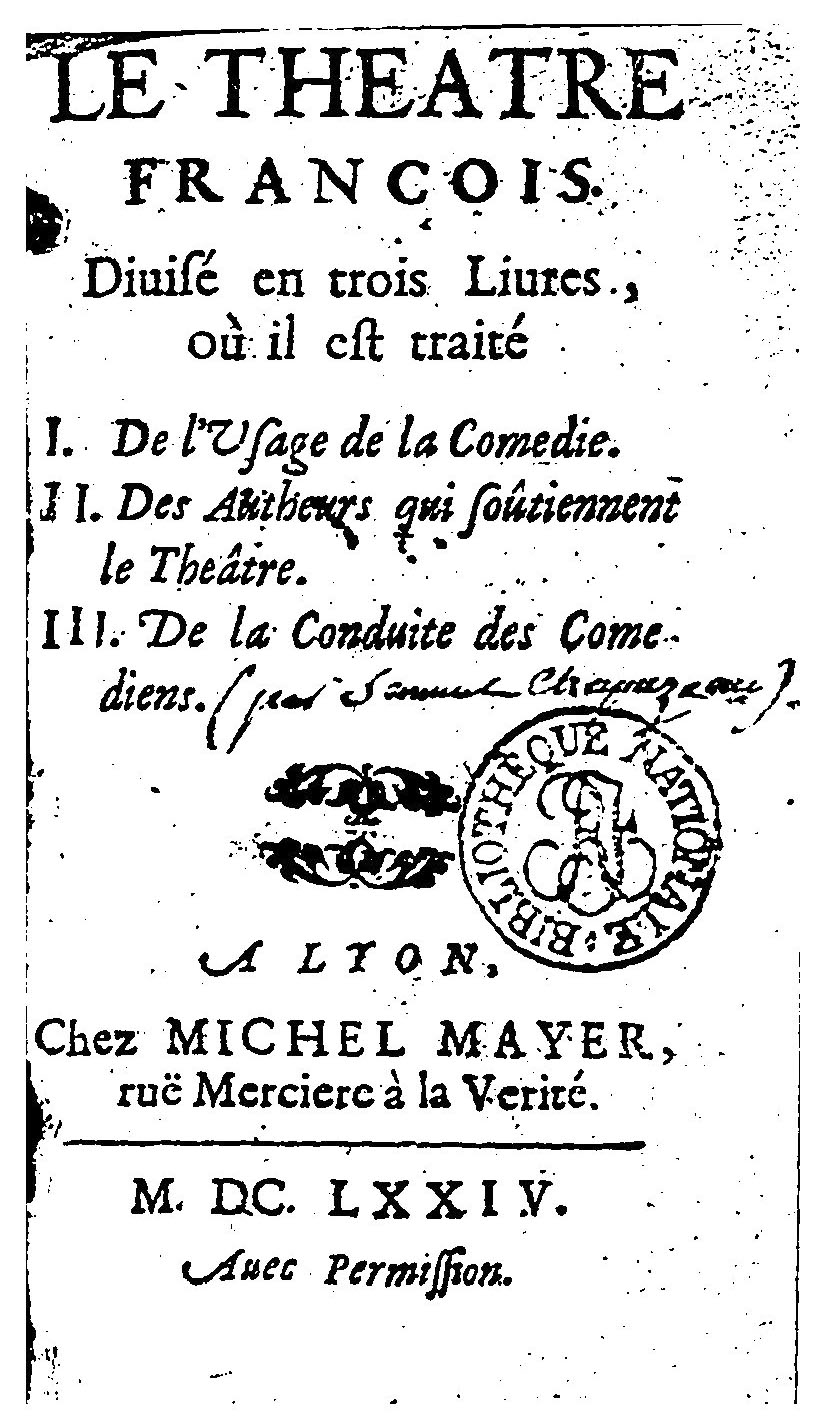 Title page of Le Théâtre François, a 1674 book about French theatre by Samuel Chappuzeau